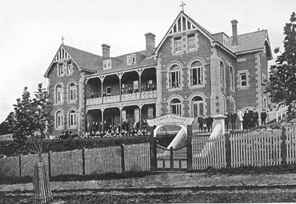 Image title:St Virgil's College 1911 Description: Building and students of St Virgil's College, Tasmania, 1911.